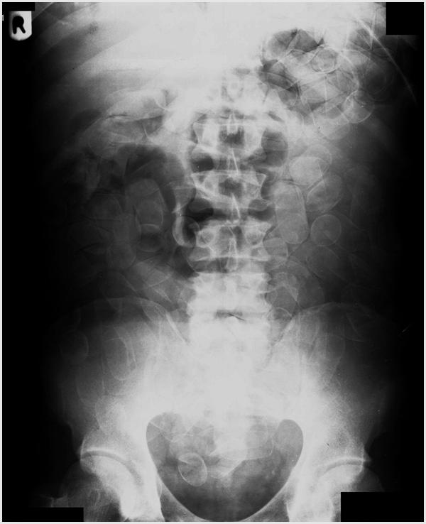 X-ray of an abdomen pilled up with cocaine